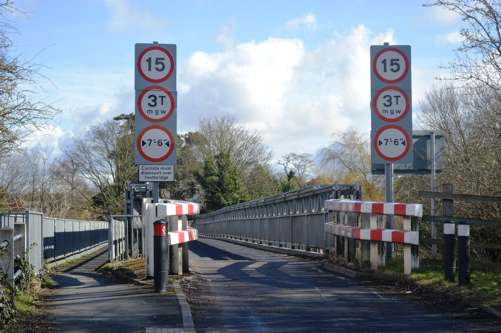 Station Road Bridge